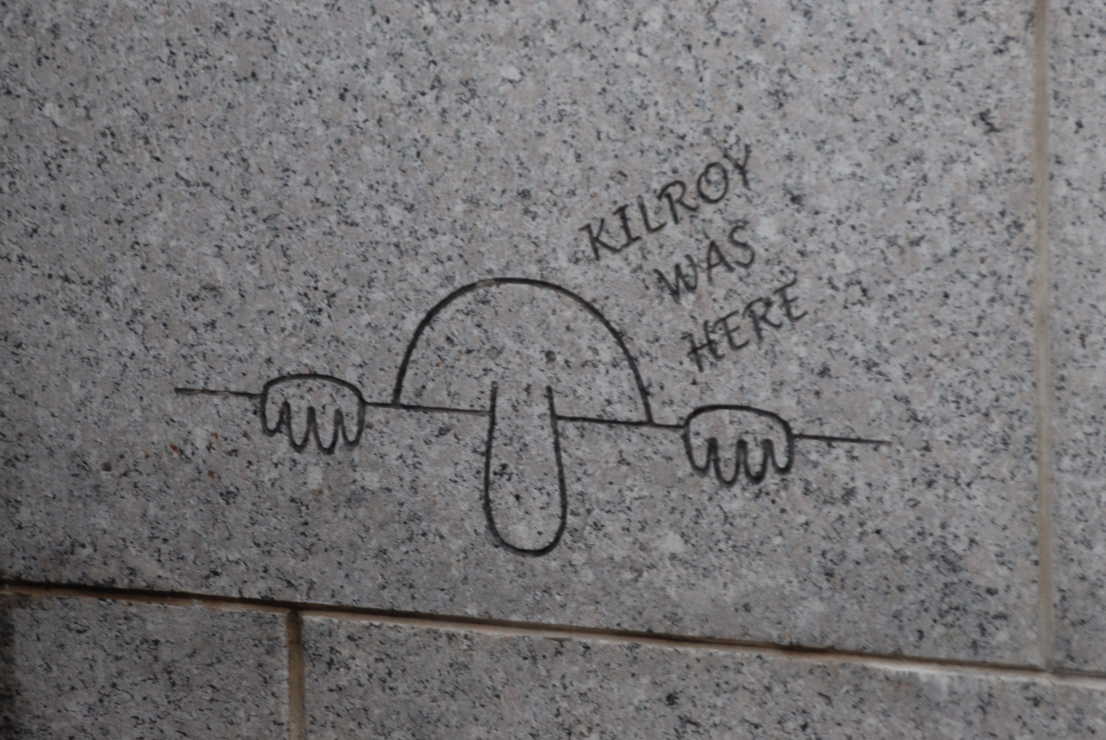 Kilroy Was Here, Engraving at the Washington DC WWII Memorial.